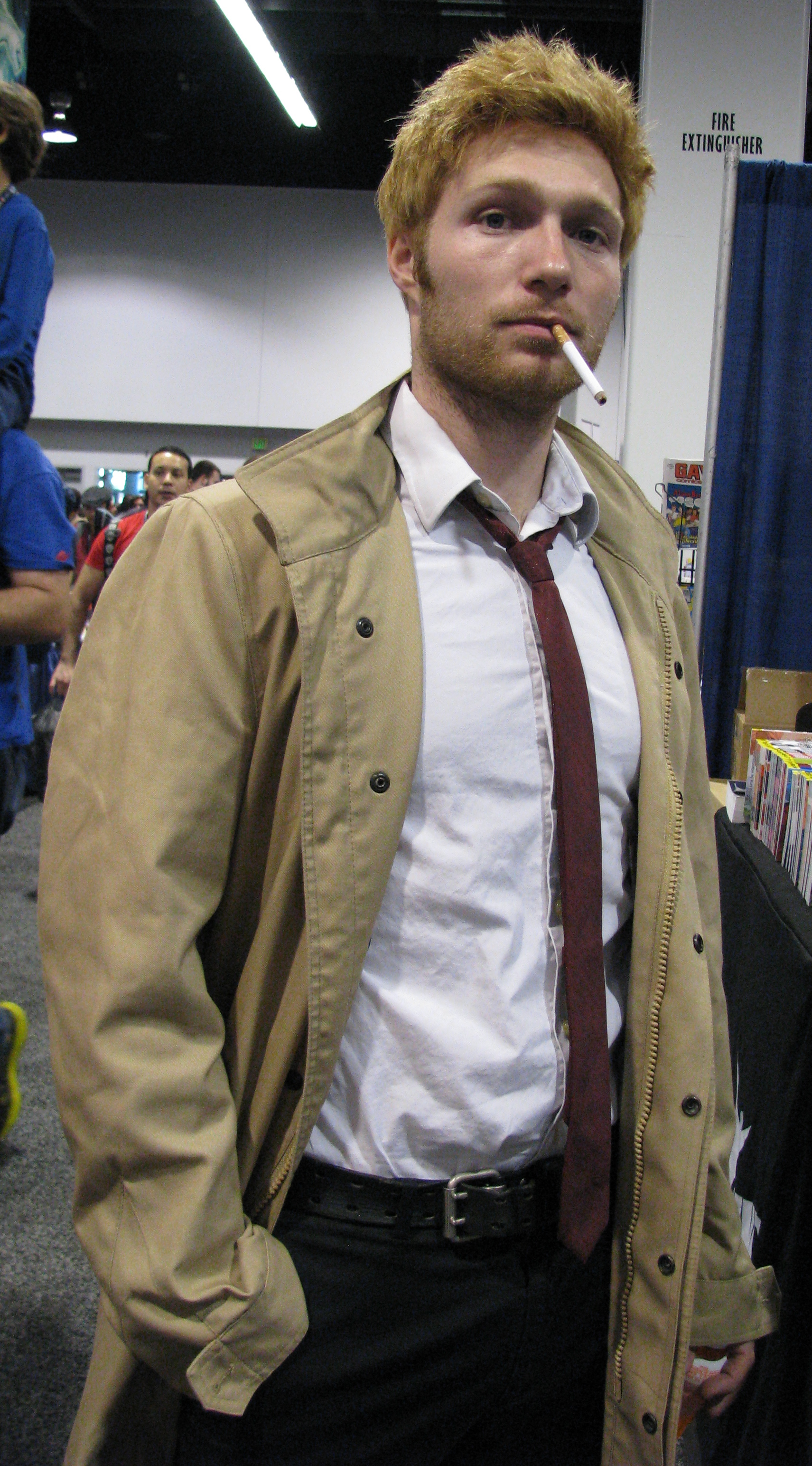 WonderCon 2014 - Constatine cosplay